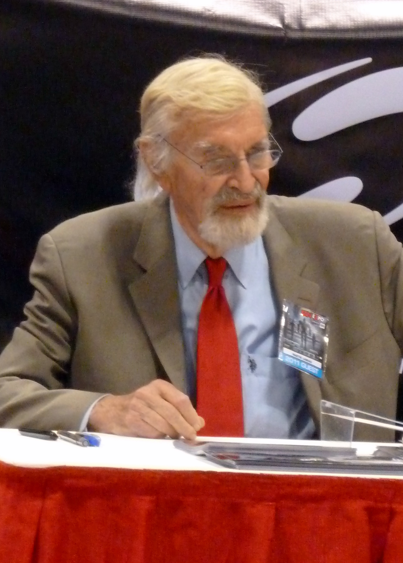 Martin Landau at Fan Expo 2011 in Toronto